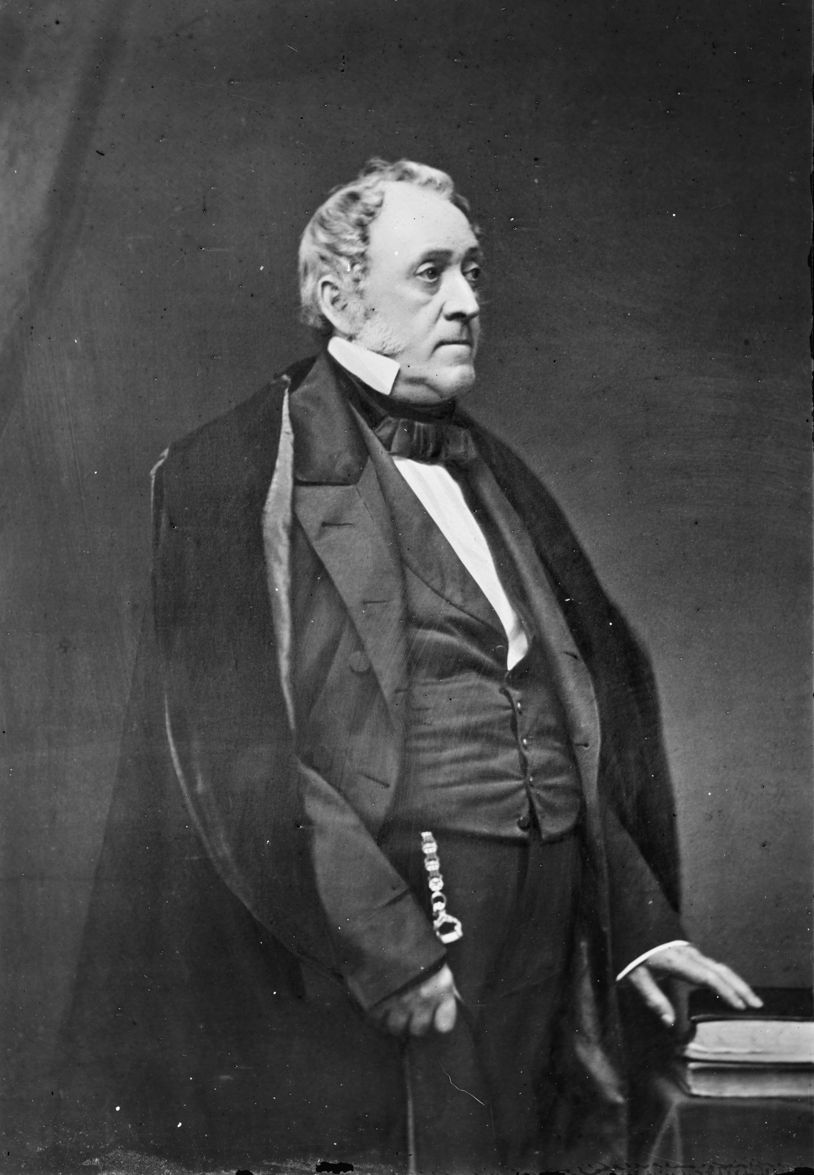 Valentine Mott. Library of Congress description: "Dr. Valentine Mott"